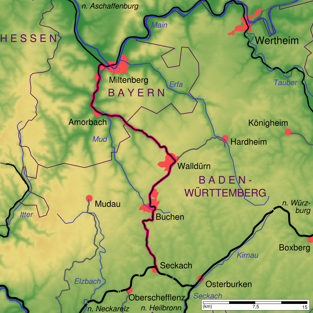 map of the Madonnenlandbahn. please see User:Kjunix/BahnNWB for comments.